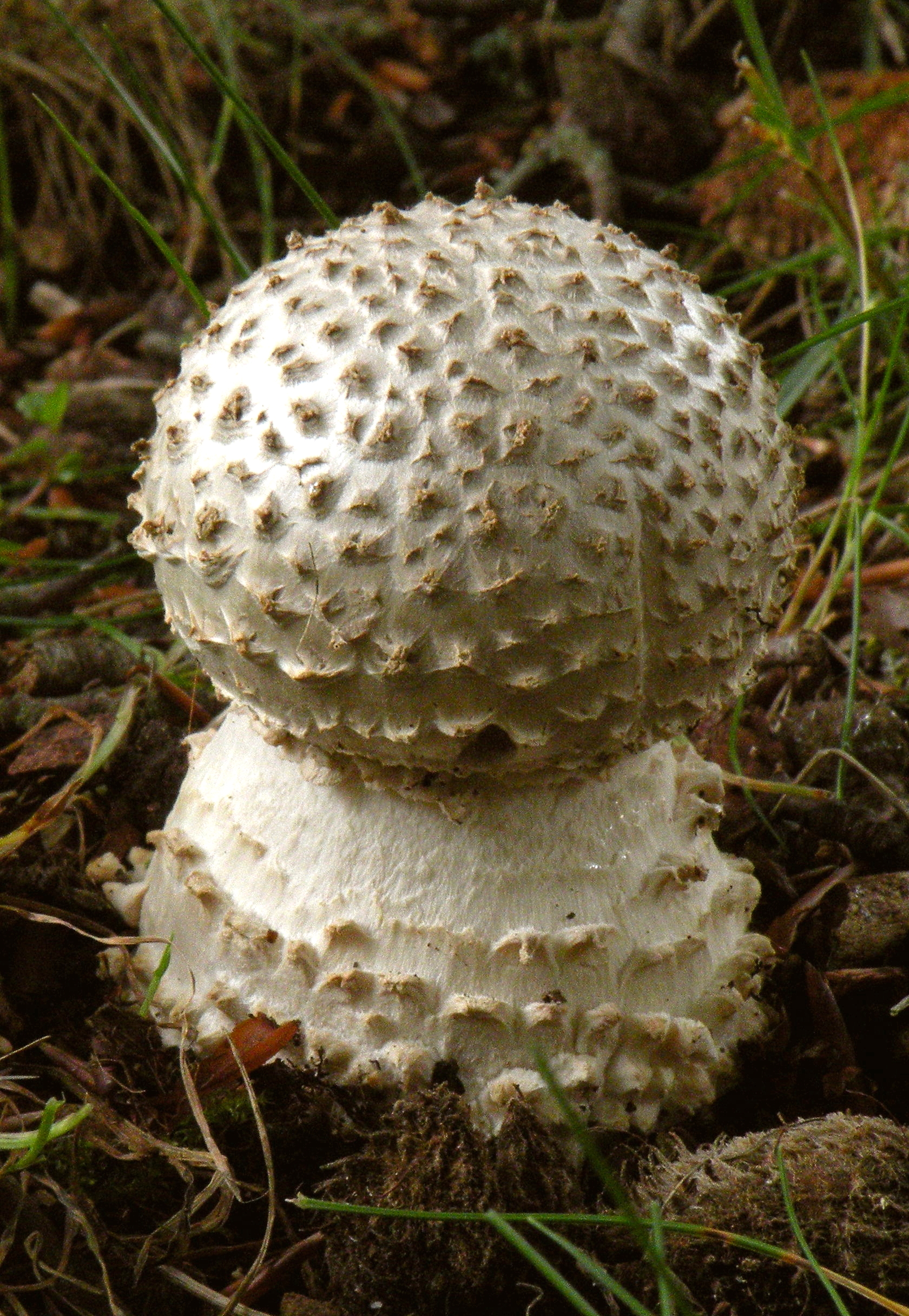 The source of this image is the photographer Frank Gardiner aka Zonda Grattus, who is the sole owner and copyright holder of this photograph and agrees to publish it under the Own Work, Creative Commons Attribution 3.0 License.